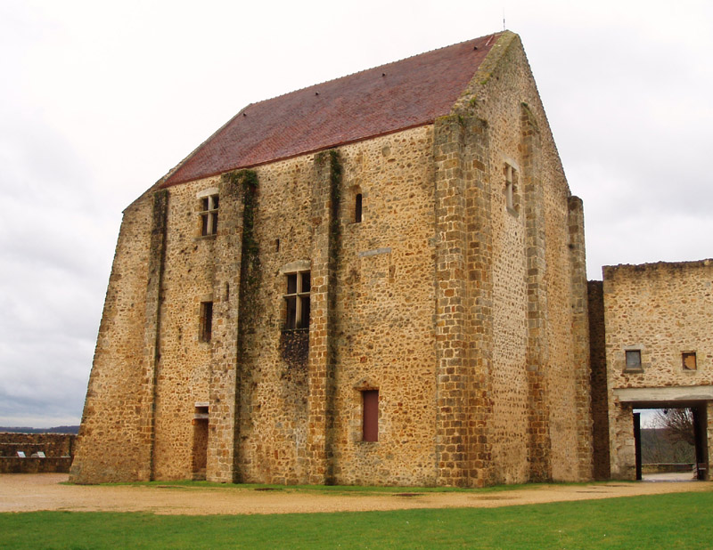 Chevreuse: Thekeep of the Château de le Madeleine